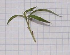 Little Goji cutting